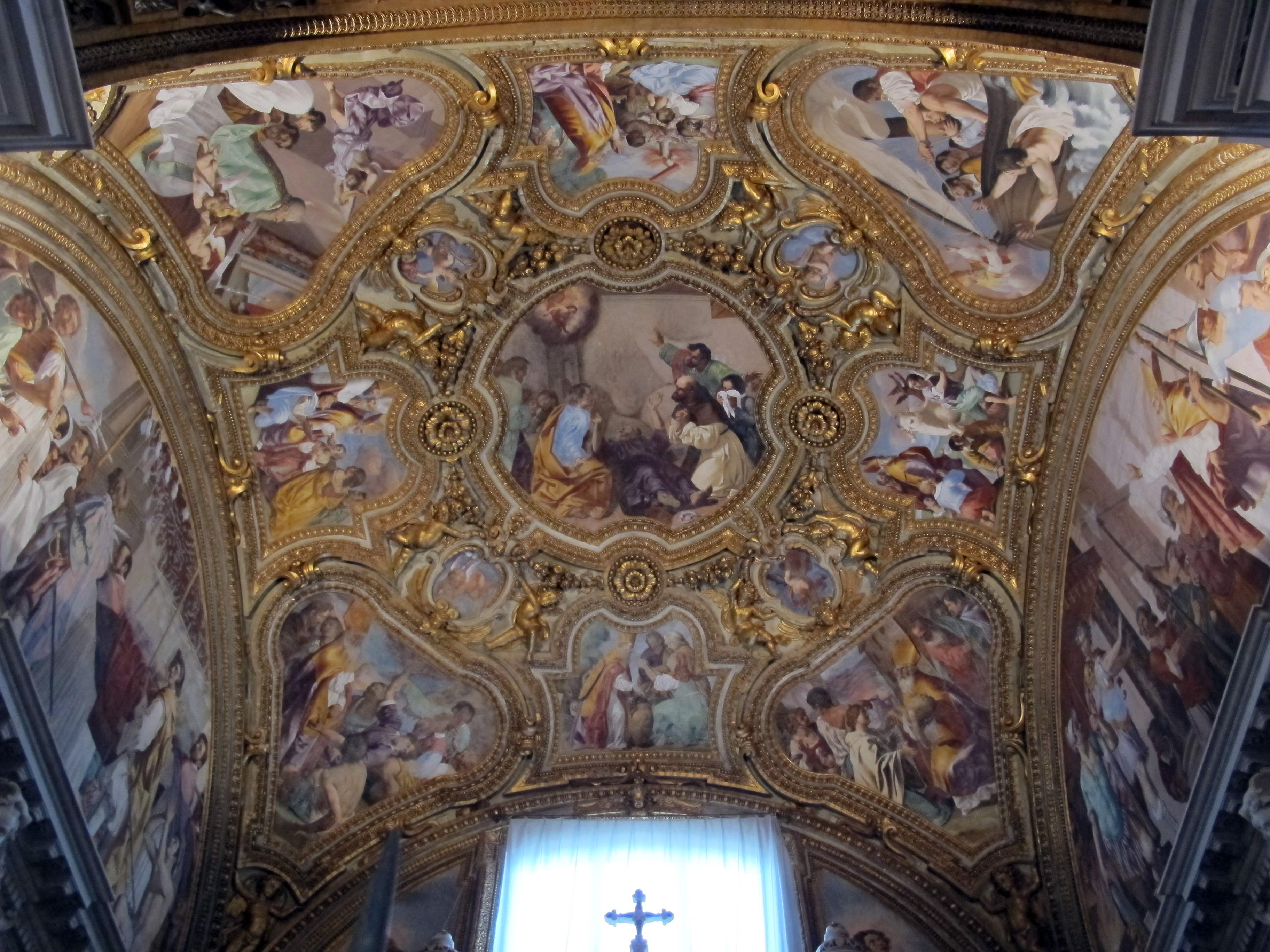 Certosa di San Martino (Naples) - Church